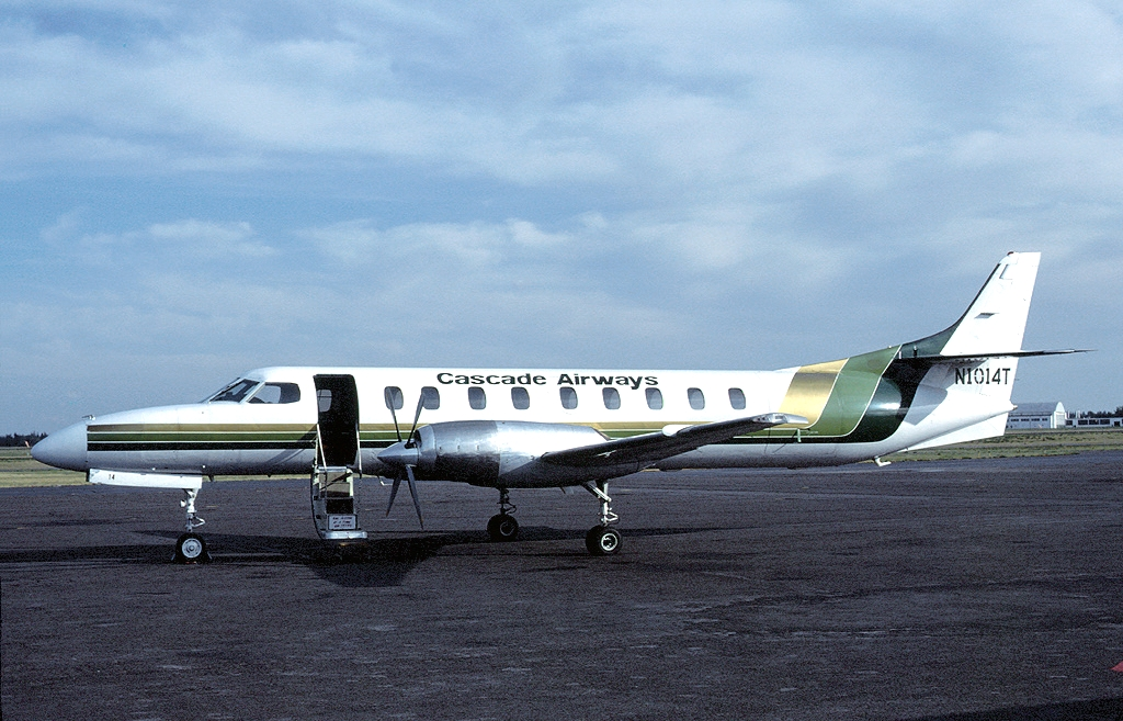 N1014T, a Fairchild Swearingen Metroliner III at Spokane International Airport.